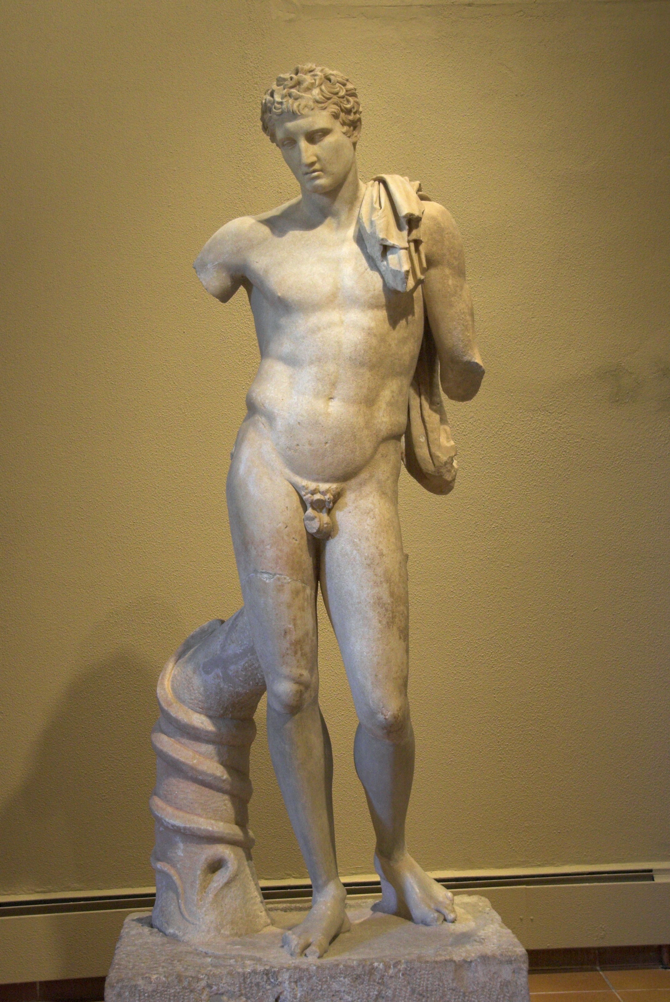 Hermes Chthonios, marble life-size, of the first decade AD. Found in Paleopolis on Andros. It is possible that this form of Hermes should portray heroized deceased. Roman copy of a work of Praxiteles school years from 350 to 325 BC (See Hermes with Dionysus in Olympia.) Archaeological Museum of Andros, No. 245.